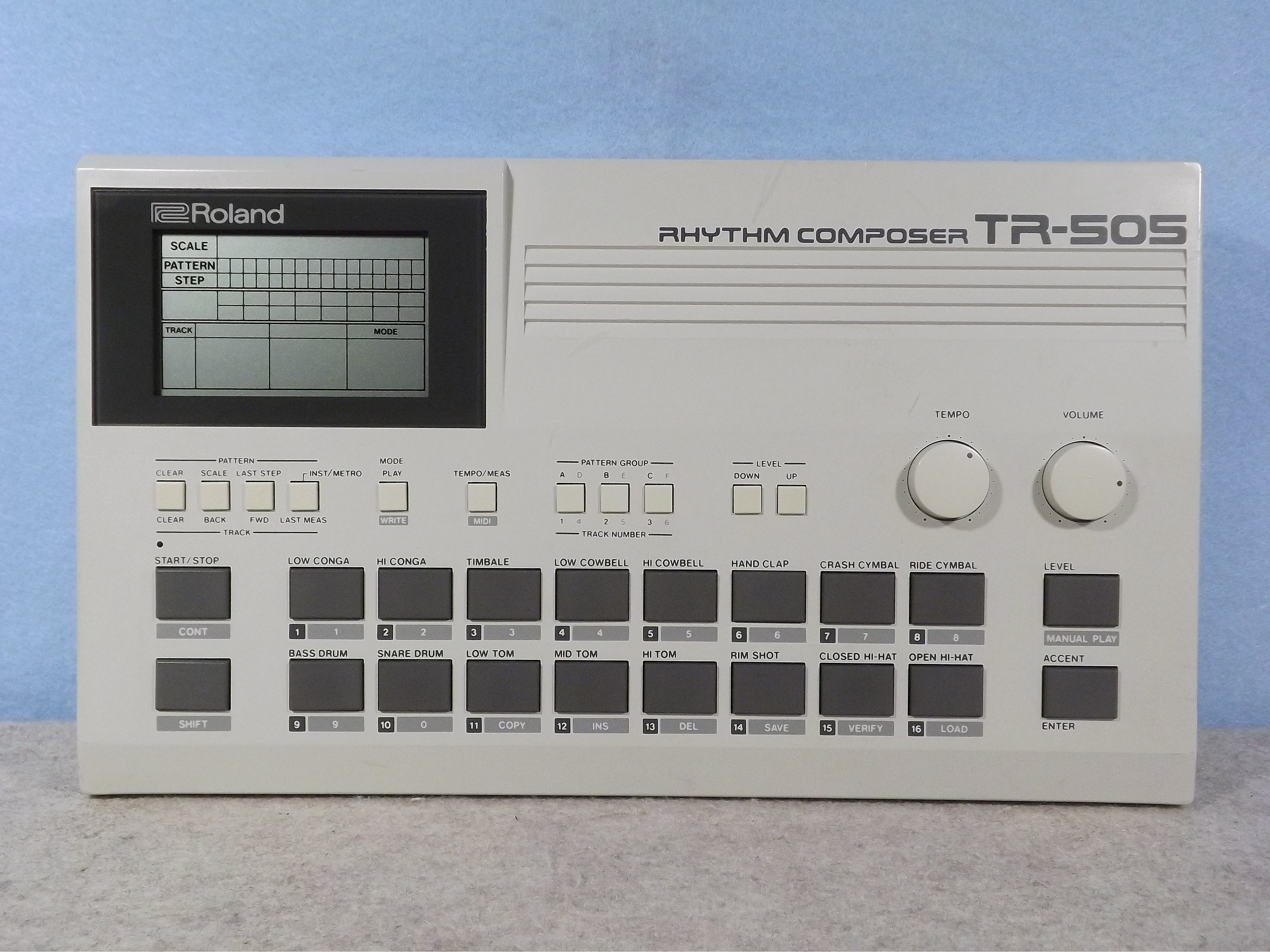 Nice original condition